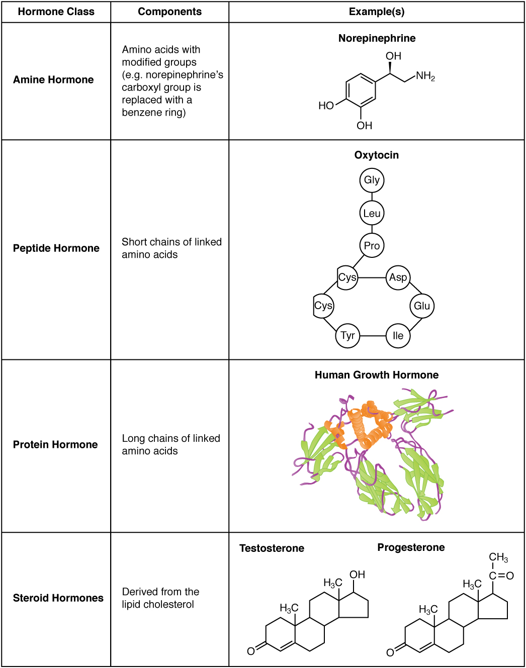 Illustration from Anatomy & Physiology, Connexions Web site. Jun 19, 2013.